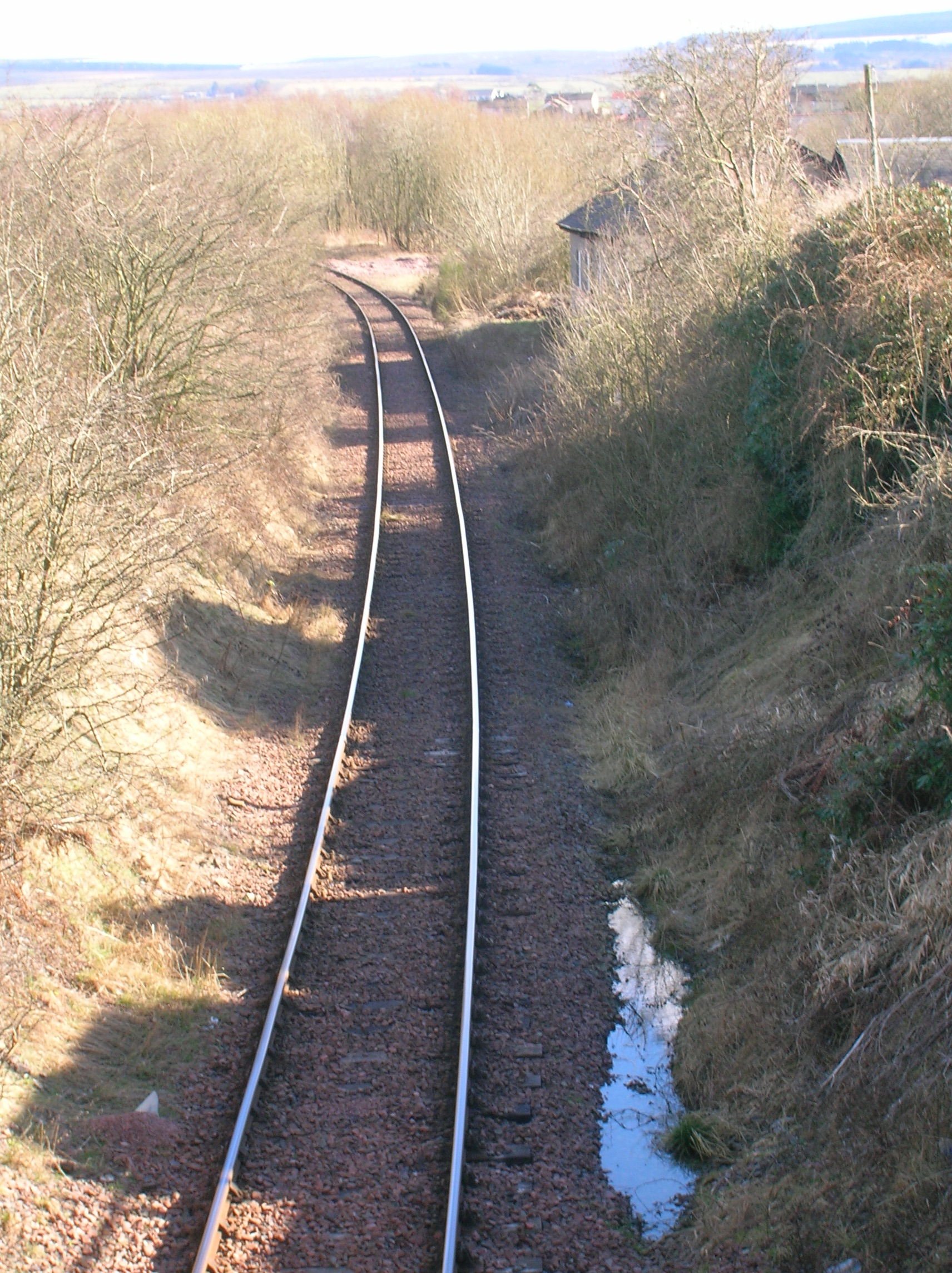 The site of Drongan railway system, Drongan, Ayrshire, Scotland.